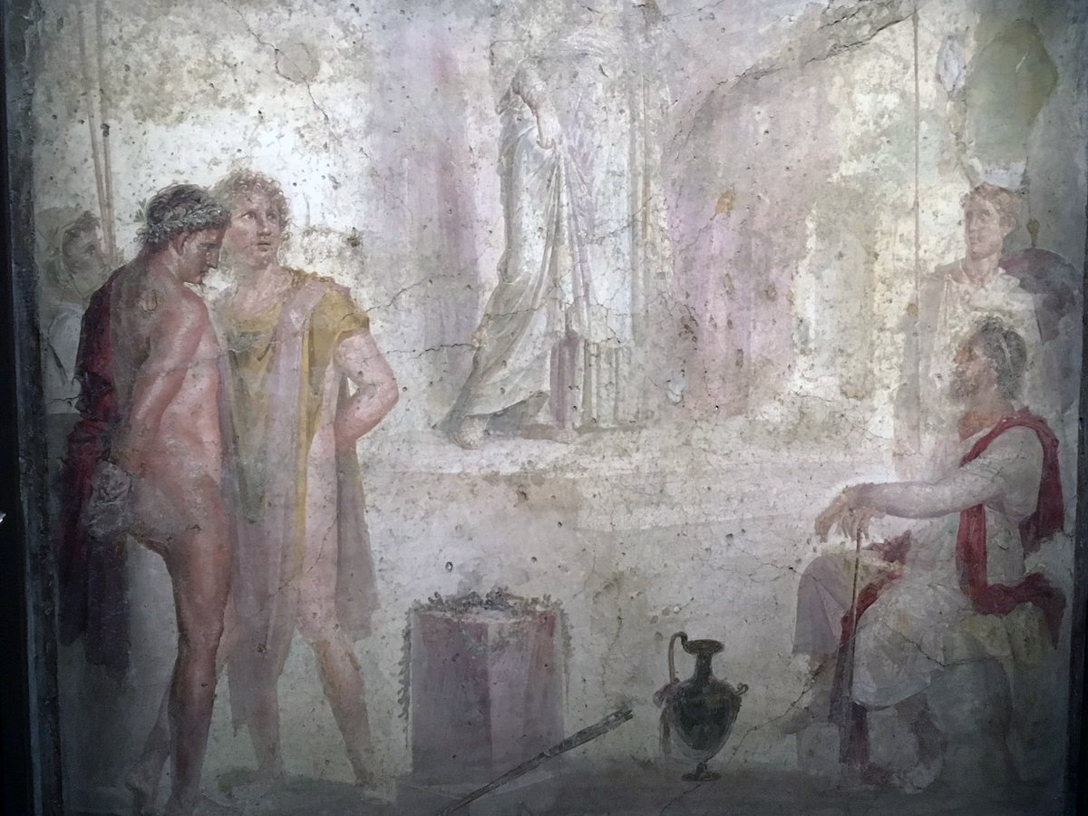 Pompeian wall painting: Orestes and Pylades among the Taurians, where Iphigenia is priestess (or before Aegisthus and Clytemnestra?).